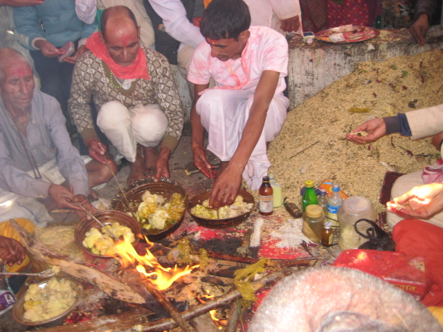 बडिमालिका मन्दिरमा पूजा गर्दे